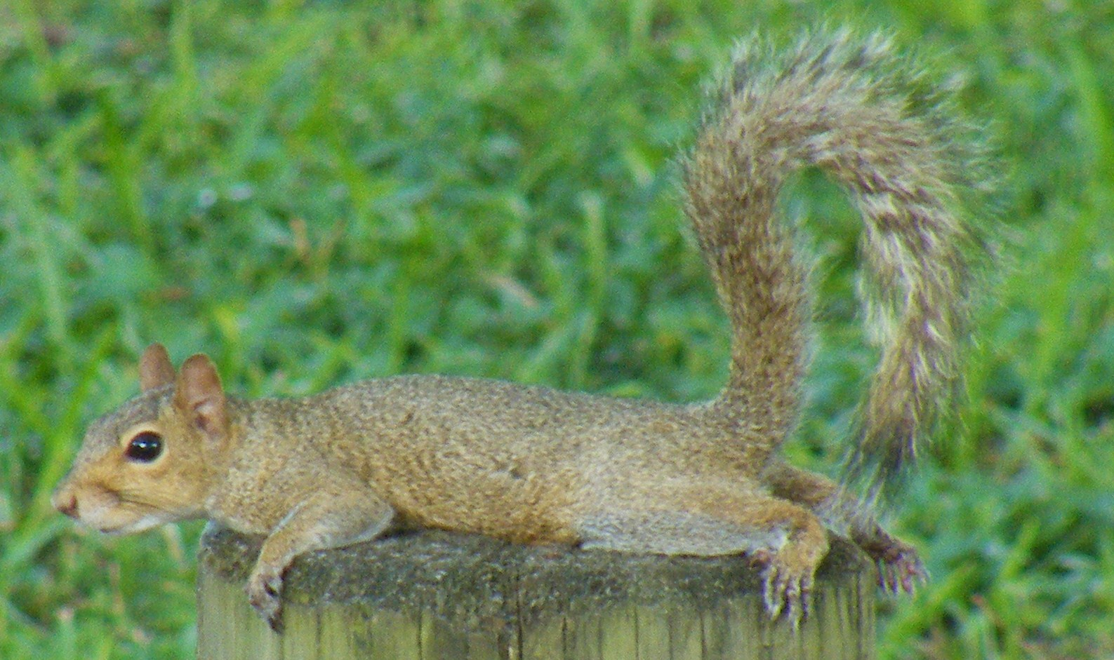 Eastern Gray Squirrel - Sciurus carolinensis - Babe Zaharias Golf Course in Tampa, Florida